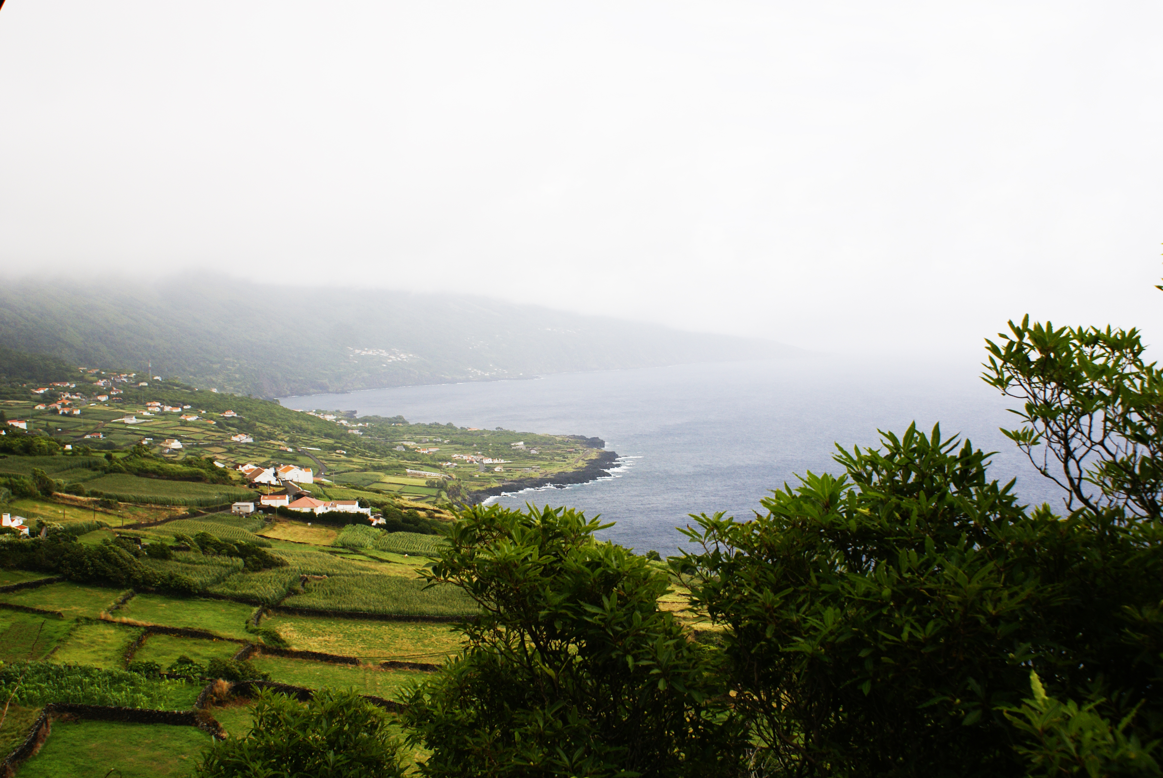 Miradouro das Ribeiras, vistas, concelho das Lajes do Pico, ilha do Pico, Açores, Portugal